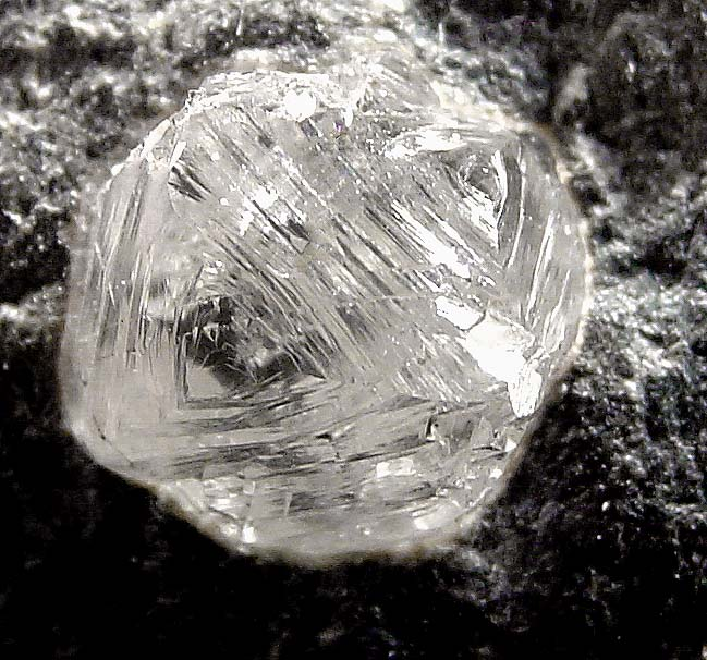 Diamond Locality: Saha Republic (Sakha Republic; Yakutia), Eastern-Siberian Region, Russia (Locality at ) This specimen features a SHARP, stepped octahedral diamond crystal measuring 6 mm, NATURALLY embedded in host rock! Note that a lot of supposedly matrix diamonds are simply fabricated, but this crystal is partially enclosed in the rock in such a way that it could not be faked. This is an excellent matrix diamond in this price range and it has excellent form and lustre - such that it really "jumps out" at you from a distance! Better in person! Obtaining matrix diamonds is difficult because of the heavy security and automation at modern diamond-mining operations to remove temptation from "the human element" as I have heard it called euphemistically in the trade. Most of these specimens are either very old or came out during a temporary breakdown in order at the dissolution of the old USSR. 3.5 x 2 x 1.2 cm